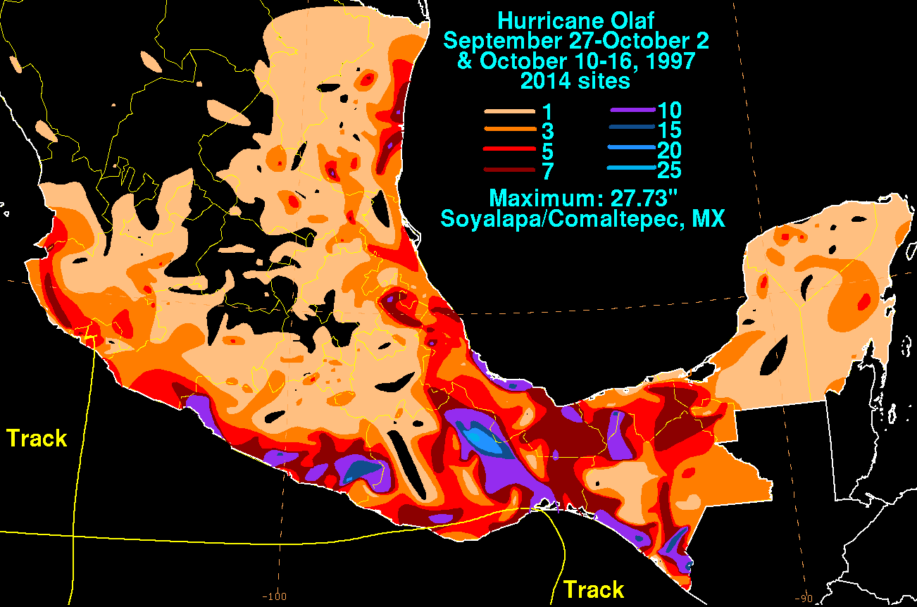 Storm total rainfall map of Tropical Storm Olaf during September and October 1997.